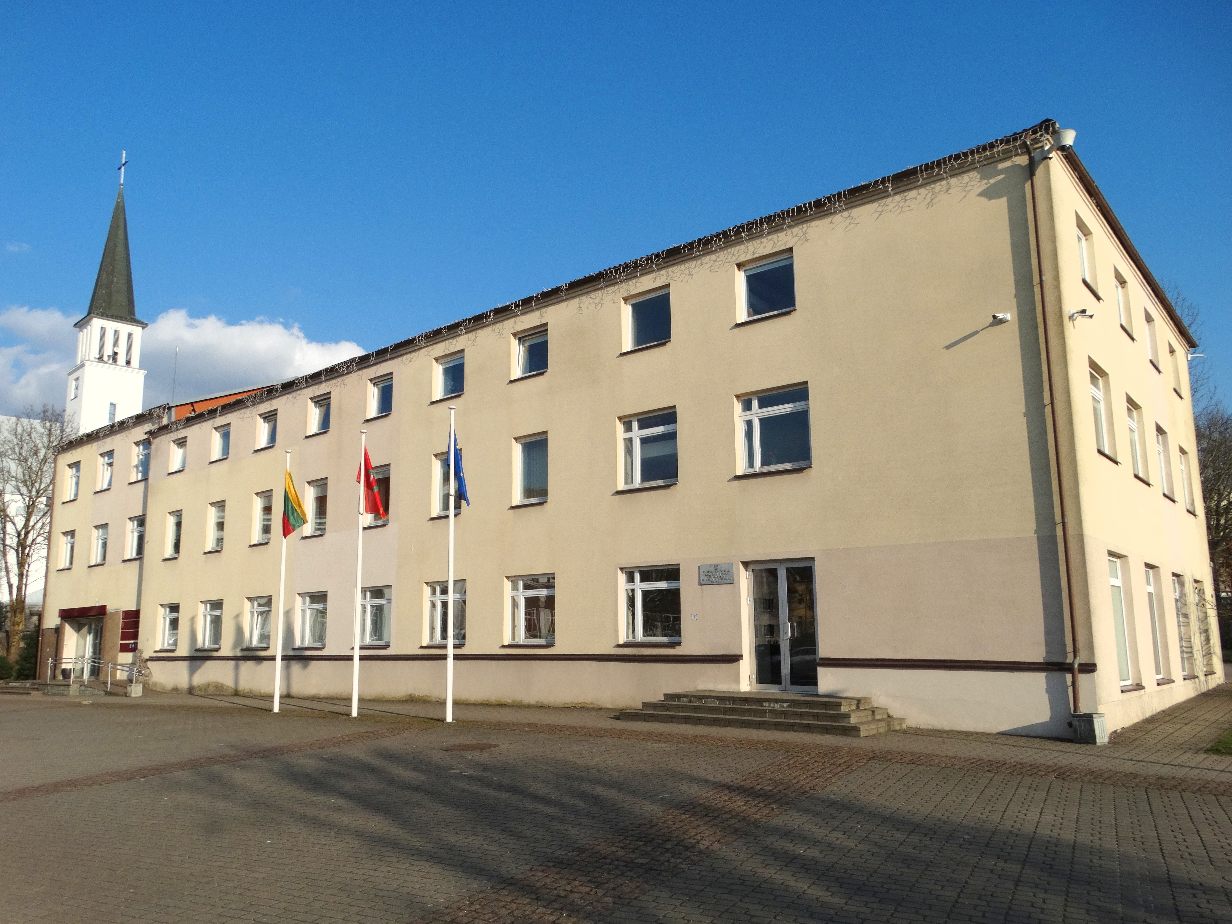 Klaipėda District Municipality, Gargždai, Lithuania